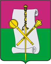 Bryukhovetsky rayon (Krasnodar krai), coat of arms